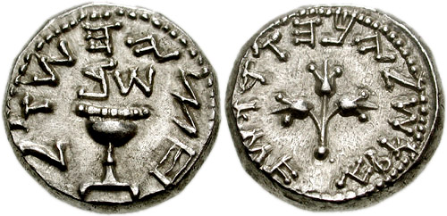 JUDAEA. First Jewish War. 66-70 CE. AR Half Shekel (18mm, 6.69 gm). Dated year 2 (67/8 CE). "Half Shekel" in Hebrew, chalice with beaded rim, date above / “Holy Jerusalem” in Hebrew, sprig of three pomegranates. Meshorer 195; Hendin 660. Near EF.